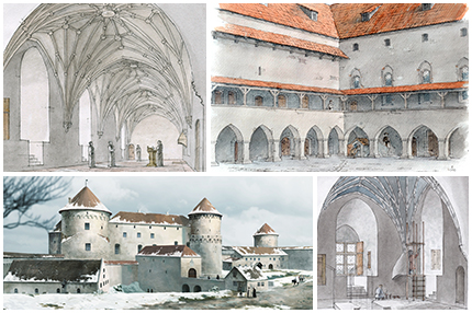 Cesis Castle c.1550